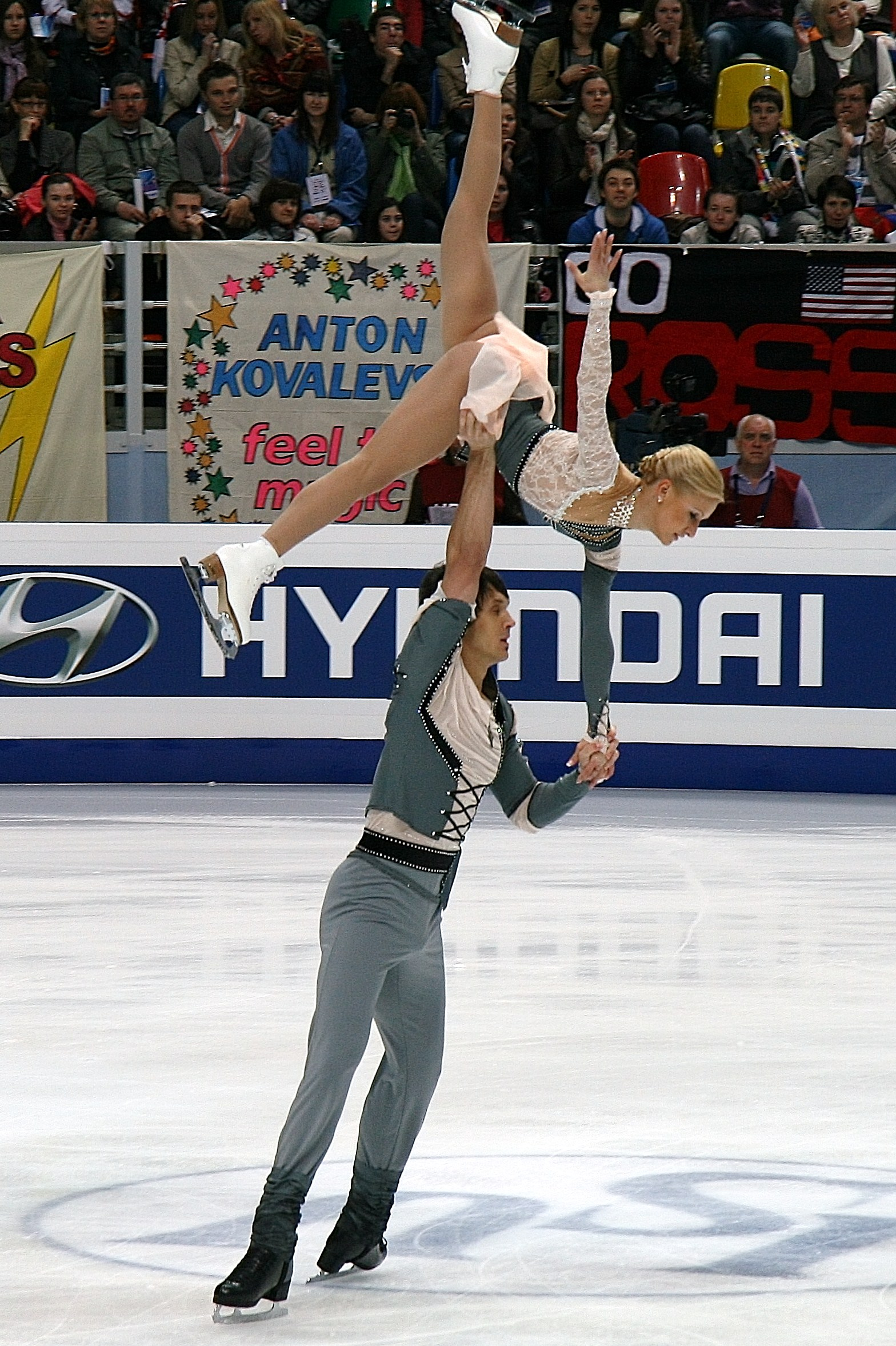 Tatiana Volosozhar and Maxim Trankov at the 2011 World Figure Skating Championships